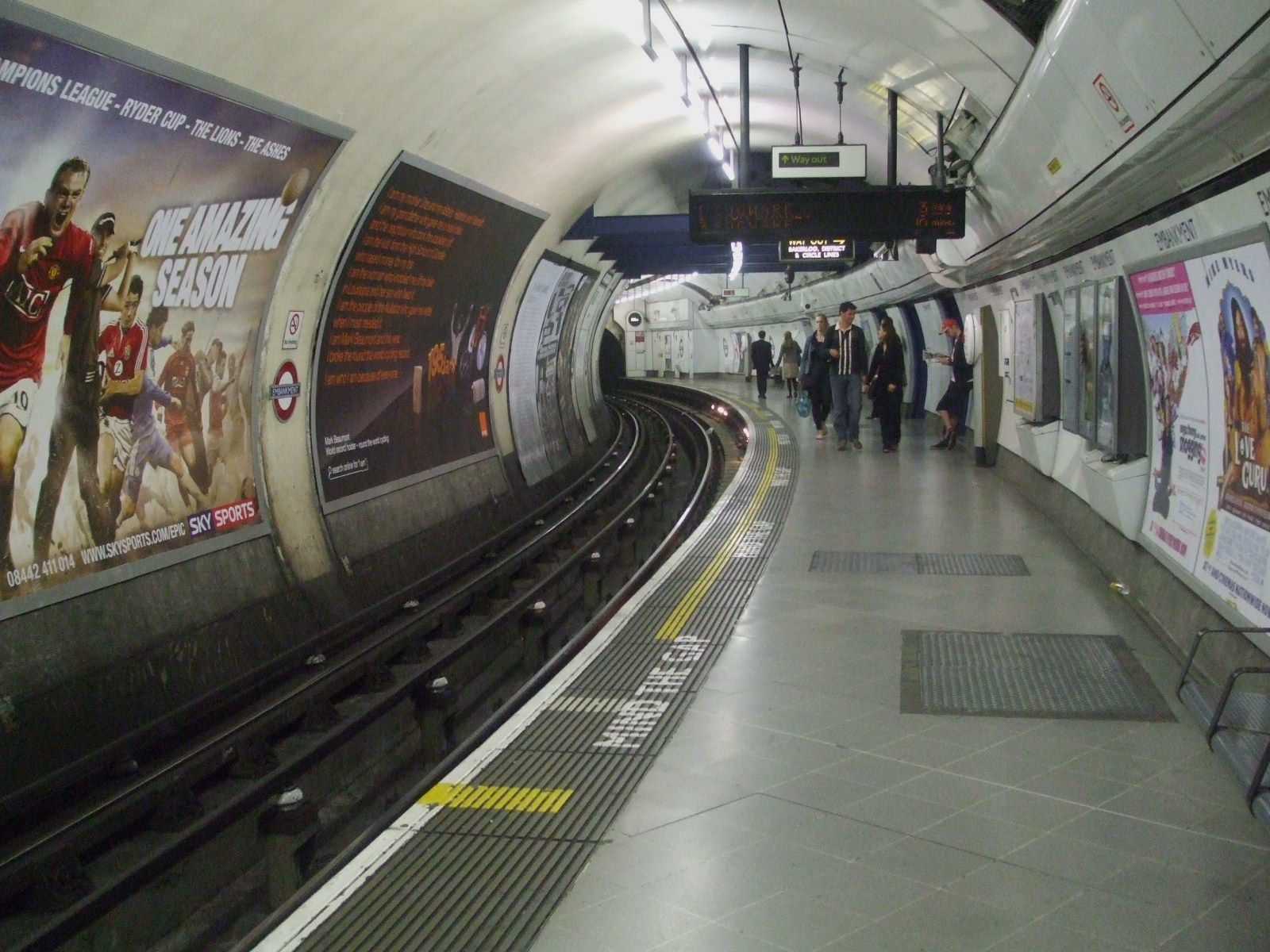 Embankment tube station Northern line northbound platform looking south